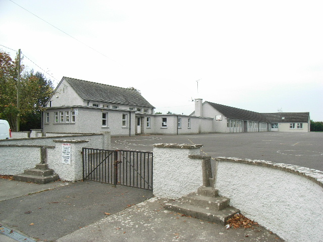 St Joseph's National School, Boyerstown, Co. Meath, 3 km from Dunderry, Meath, Ireland.